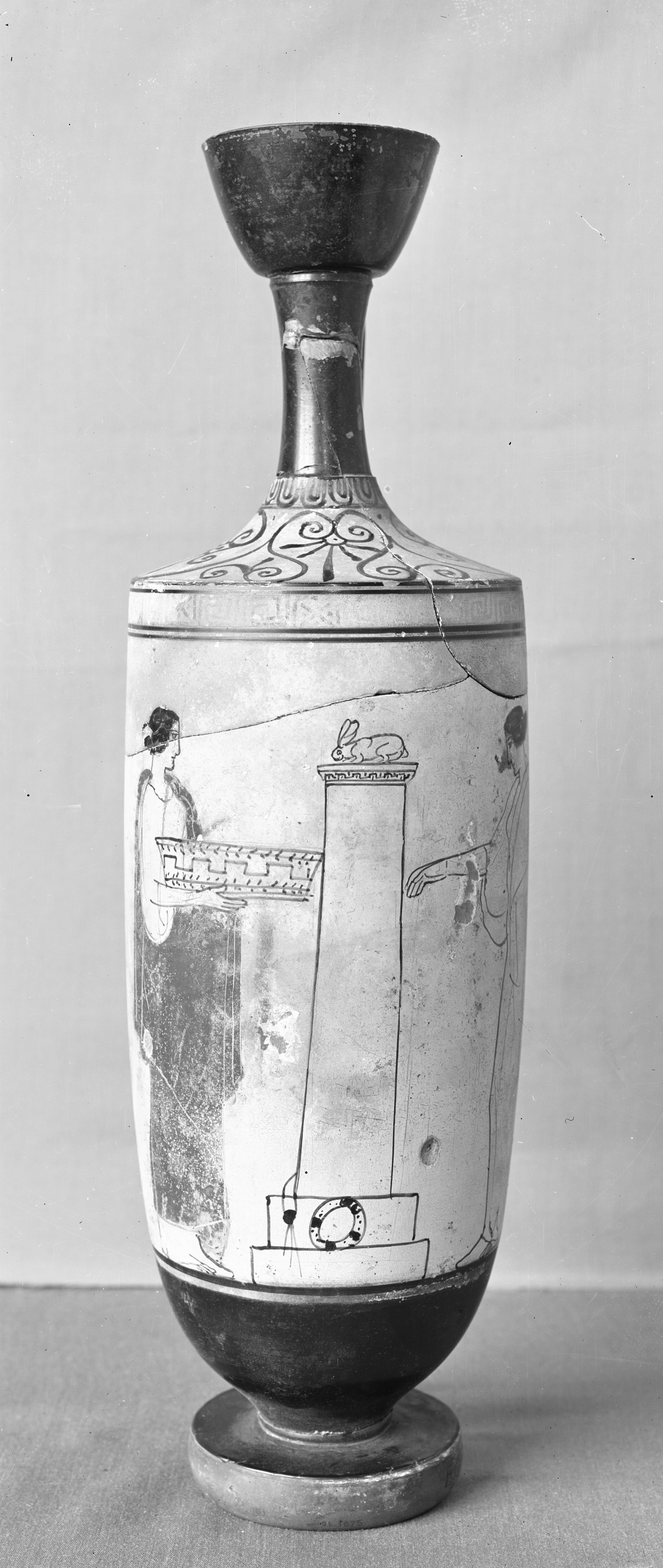 Greek, Attic; Lekythos; Vases